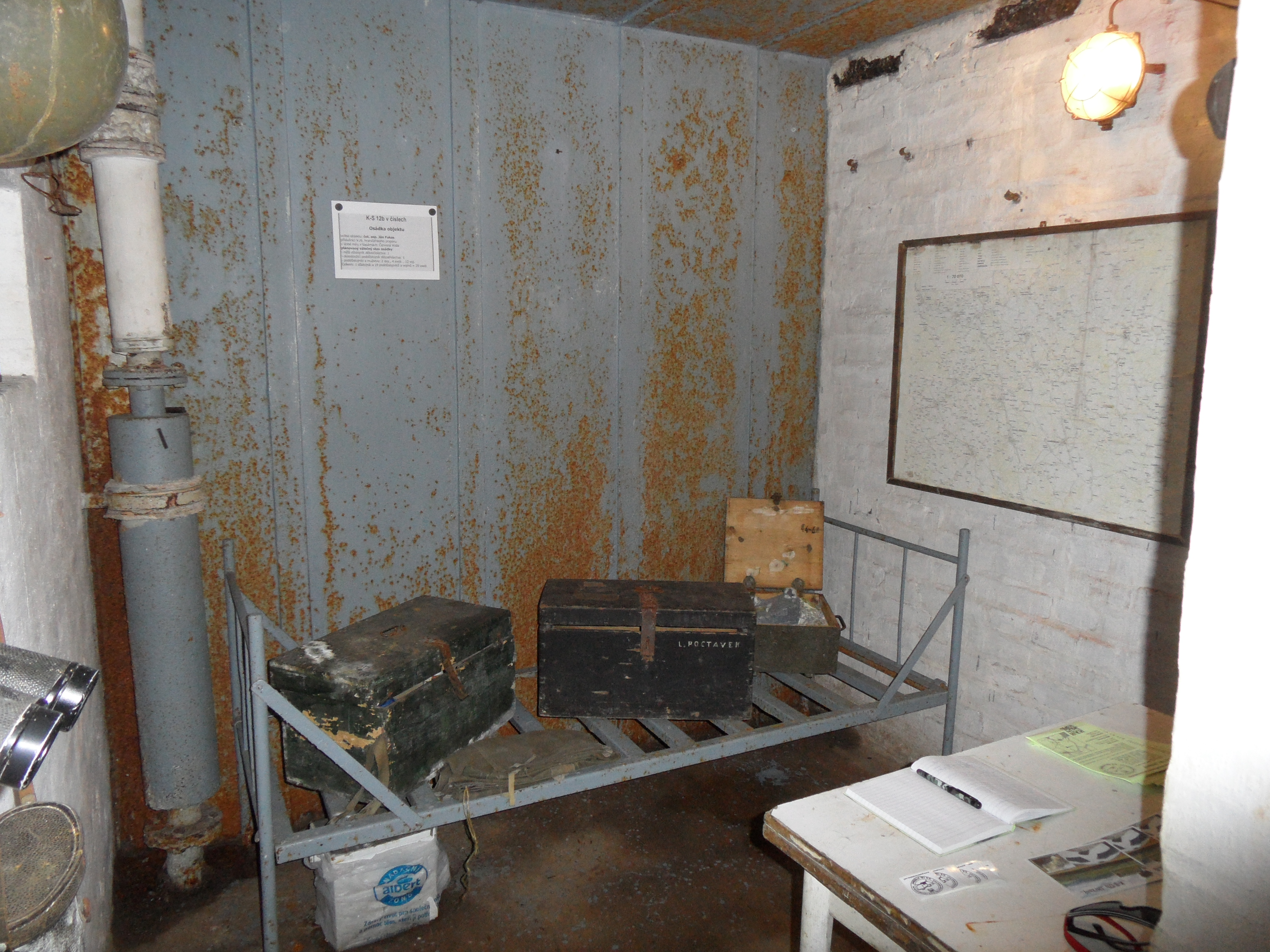 K-S 12b Utržený casemate (part of Hůrka fortress) F. Interior: Equipment, Ústí nad Orlicí District, the Czech Republic.